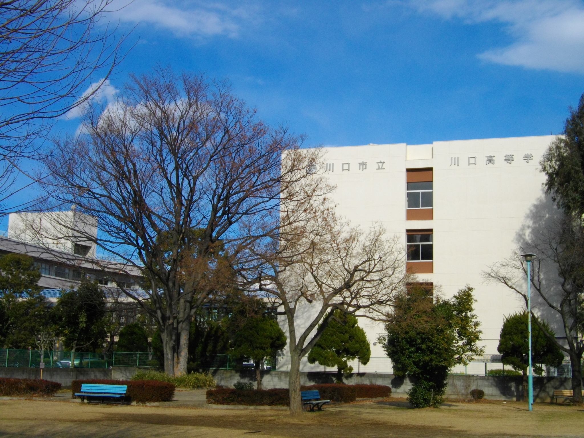 Kawaguchi Municipal Kawaguchi High School